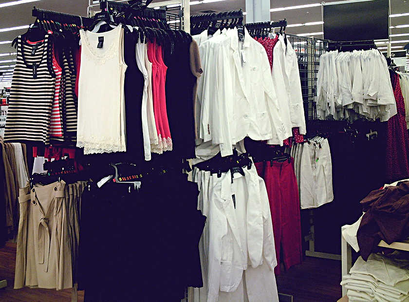 Clothing in store, ready to wear, off the rack (cropped/retouched)